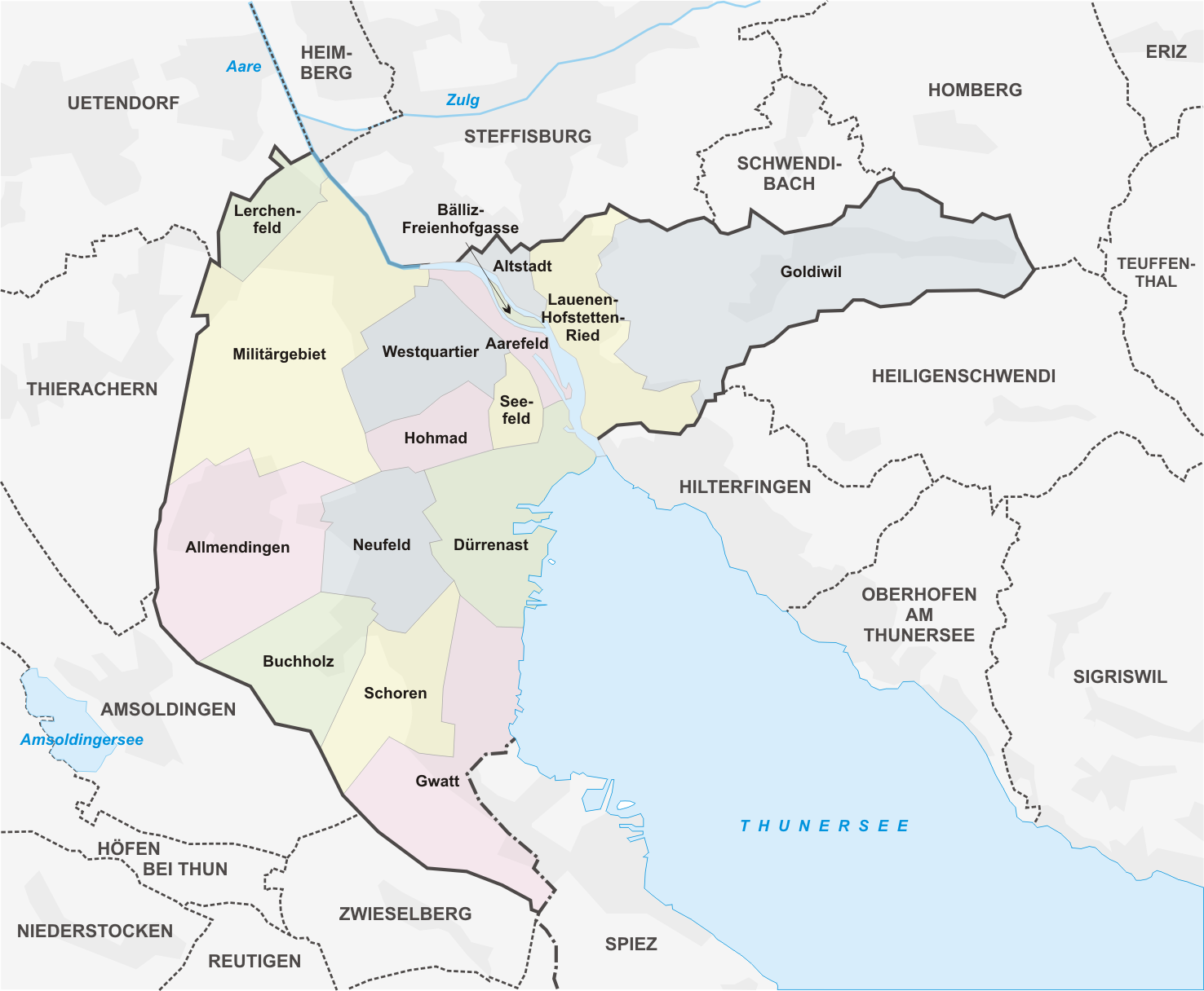 Thuner Quartiere Source: Tschubby